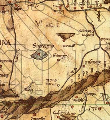 Croped from Map of Europe drawn by Martin Waldseemueller,with present day Serbia and lost Svrčin Lake.